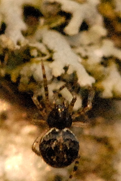 Theridion mystaceum from Commanster, Belgian High Ardennes .